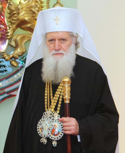 Neophyte of Bulgaria